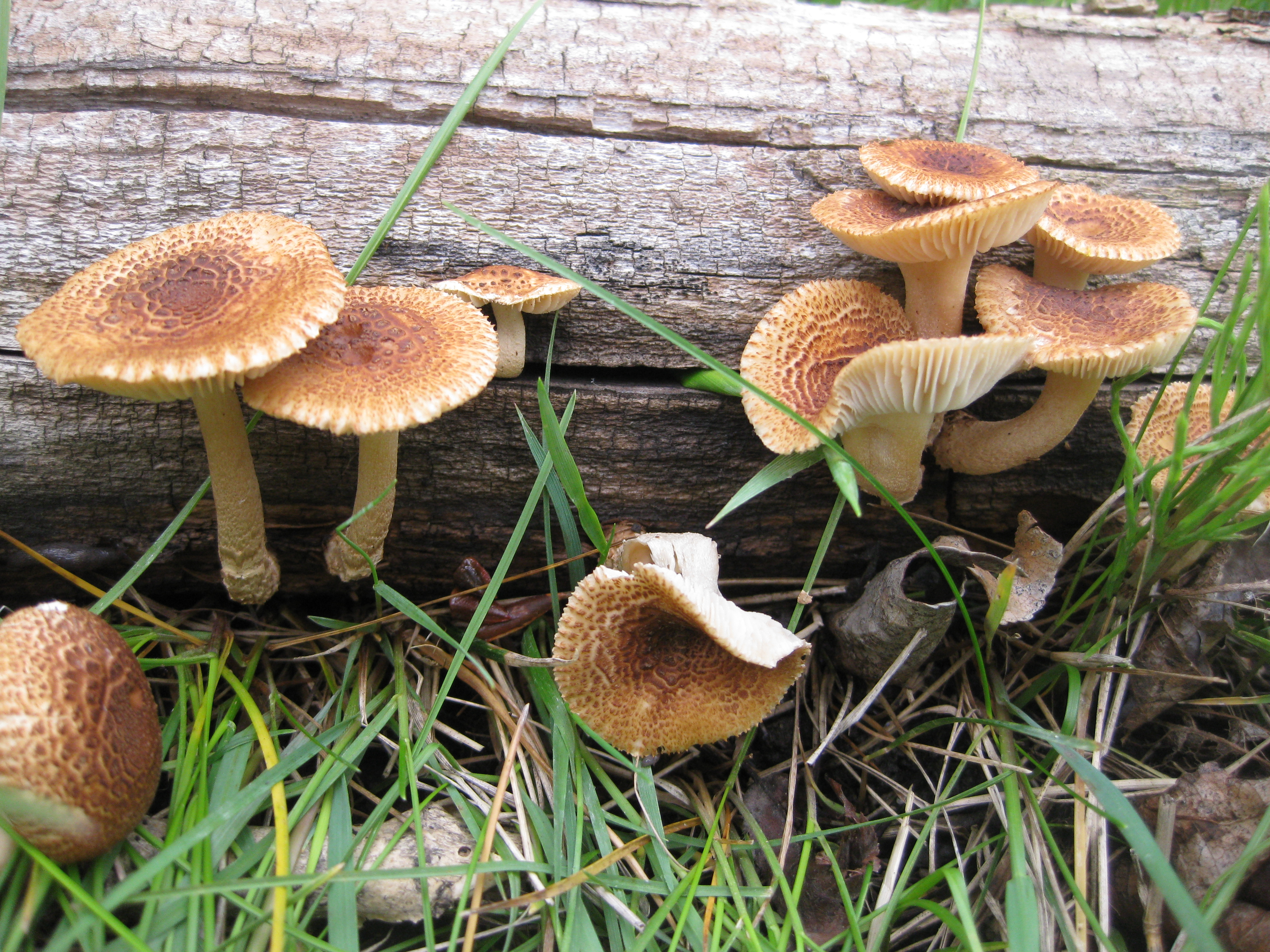 Heliocybe sulcata (Berk.) Redhead & Ginns Location: Gallatin Co., Montana, USA Observation Notes: Growing on cottonwood. White, attached gills. For more information about this, see the observation page at Mushroom Observer.